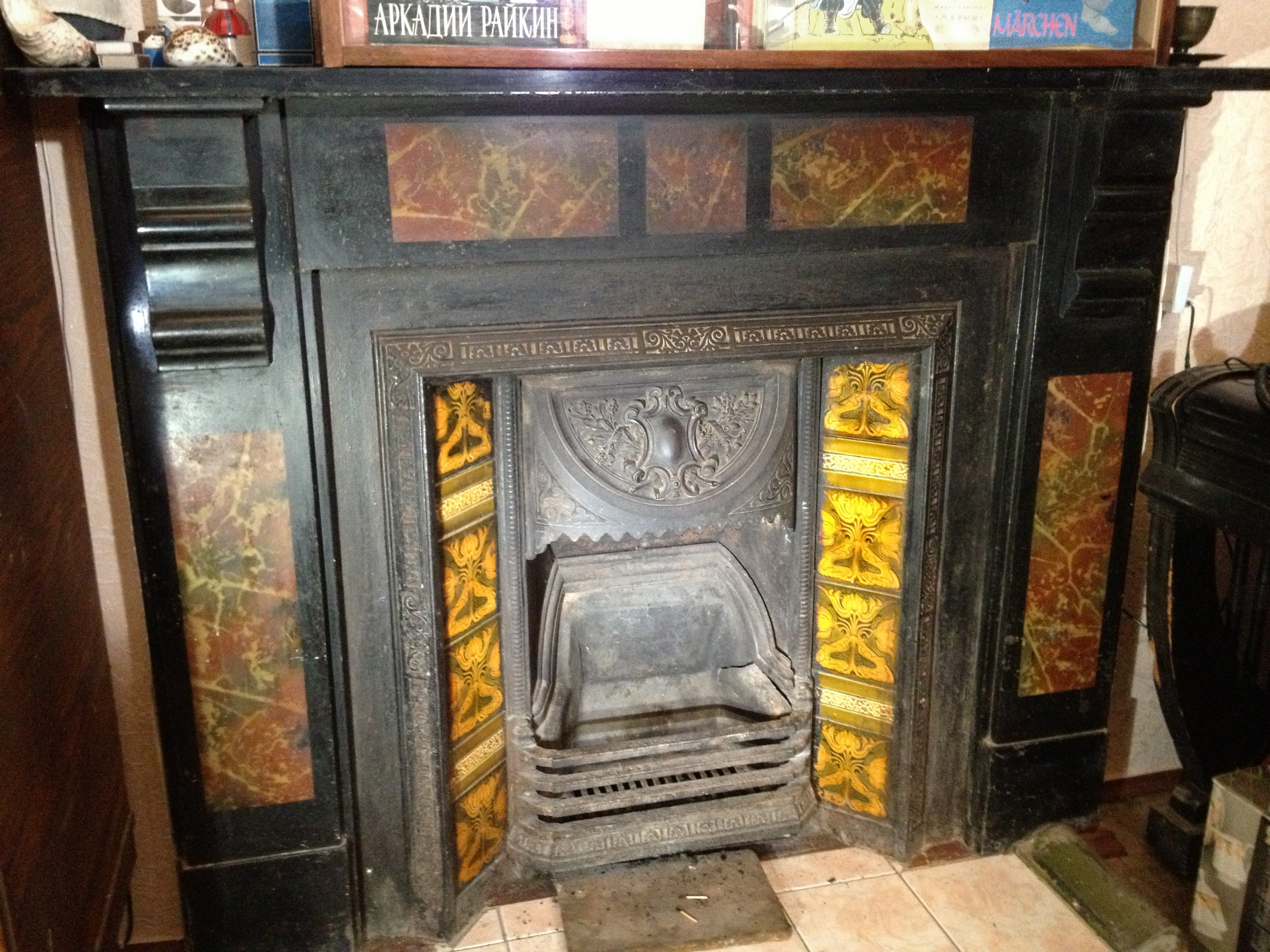 Fireplace in Apartment house ‘Russia‘, Sretensky Blvd., 6, Moscow